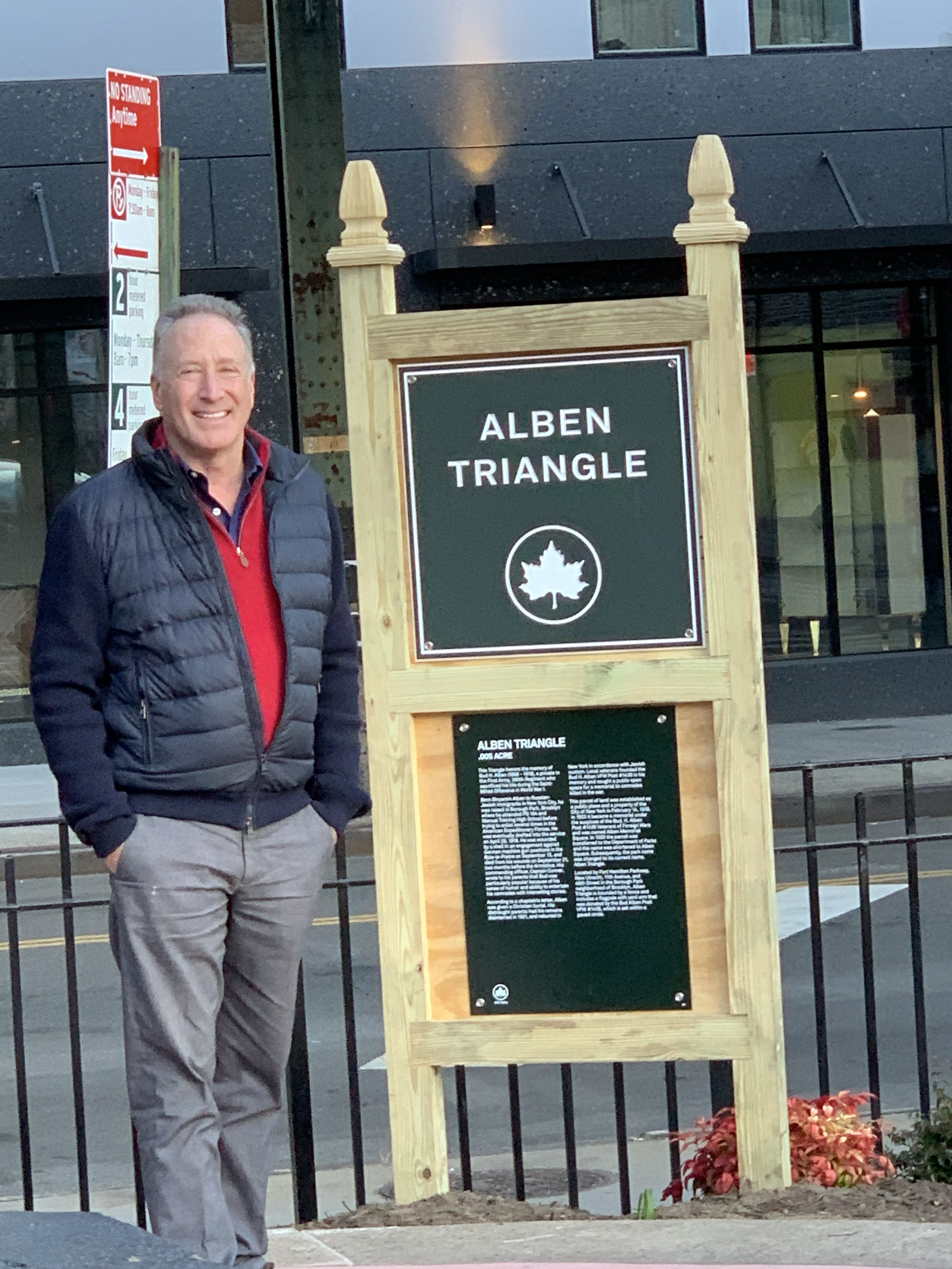 Alex at Alben Square, November 9, 2019; one day after rededication